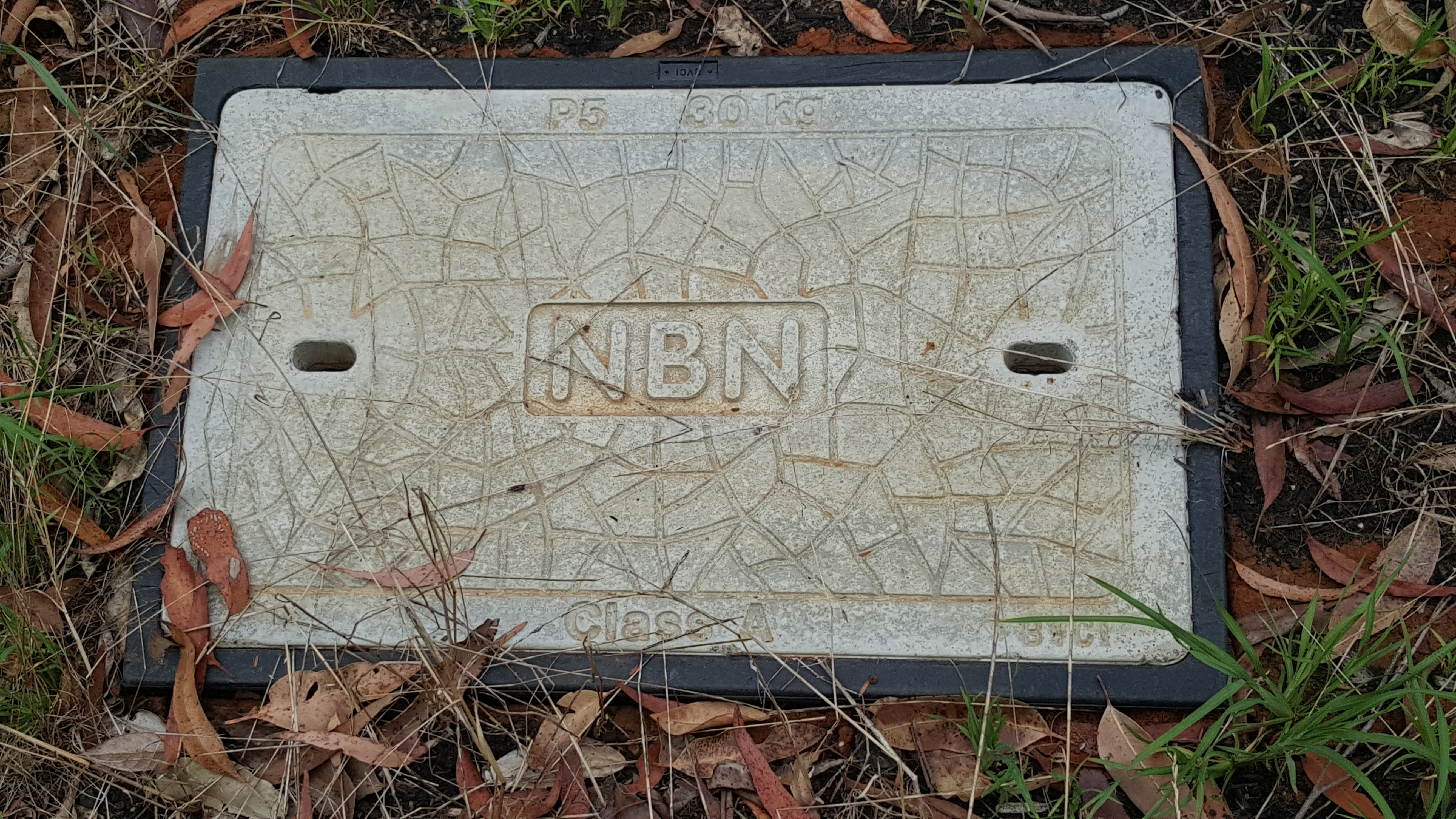 Top view of an National Broadband Network concrete pit cover in grass. Class A, P5 rating (30 kg).